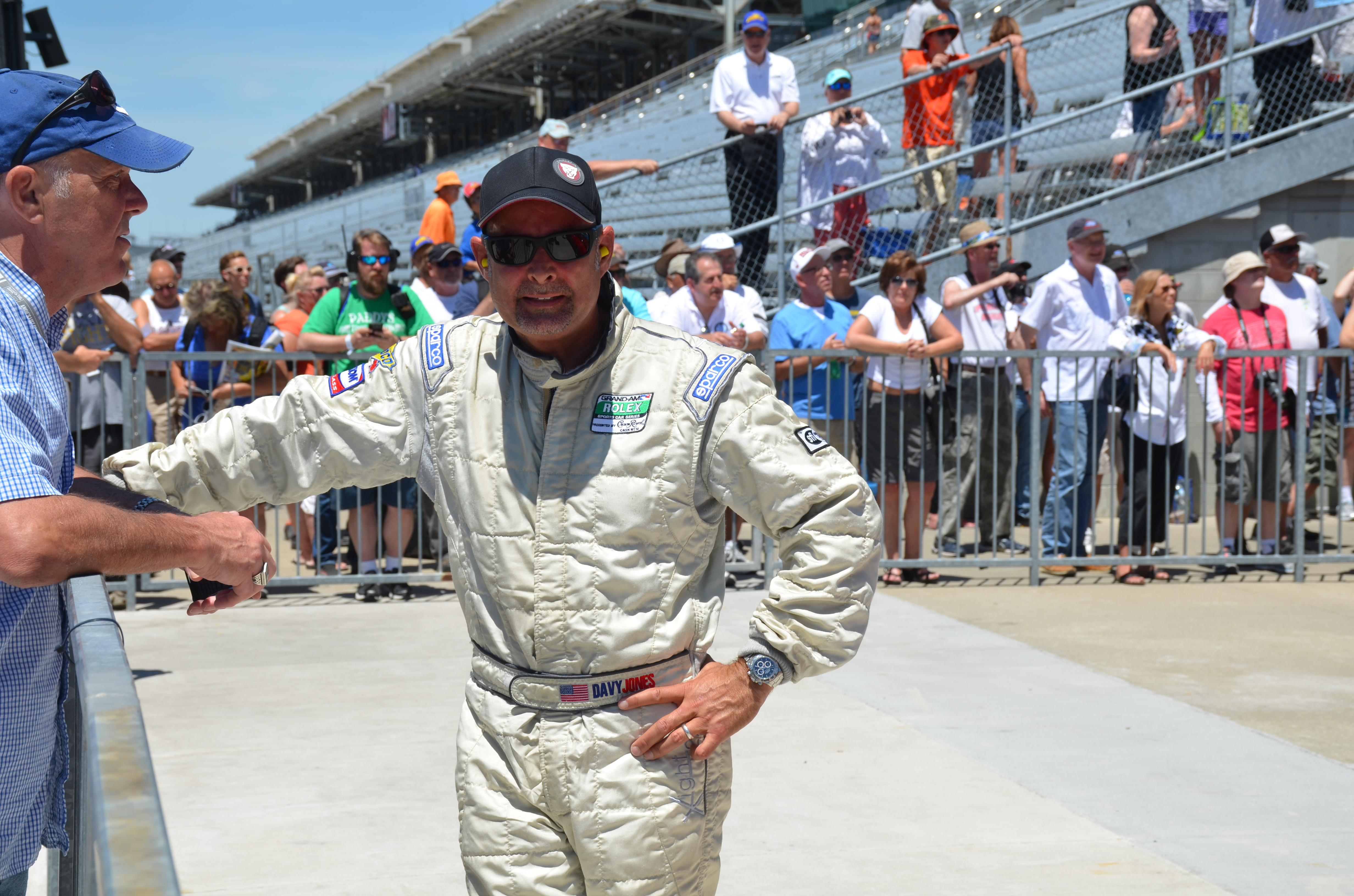 Davy Jones at the 2016 Brickyard SVRA Pro-Am race at the Indianapolis Motor Speedway.